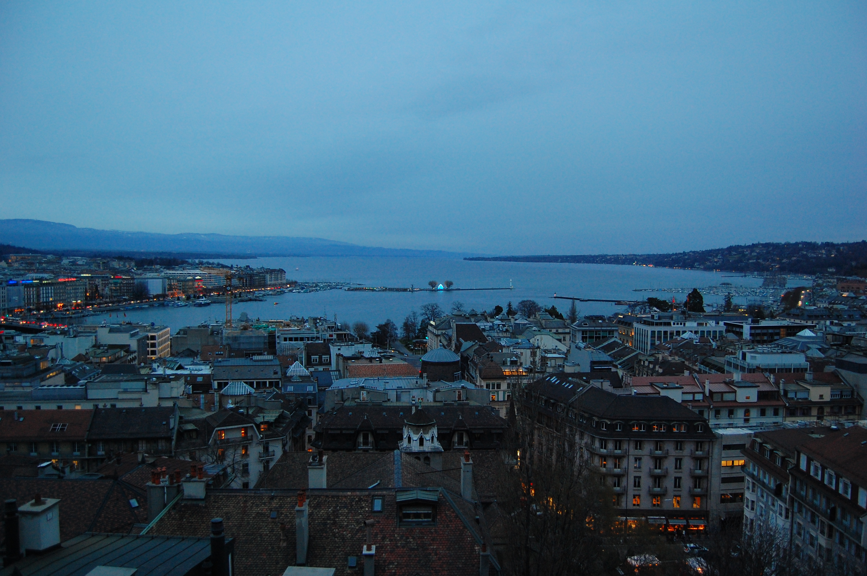 Taken from the North Tower of the cathedral